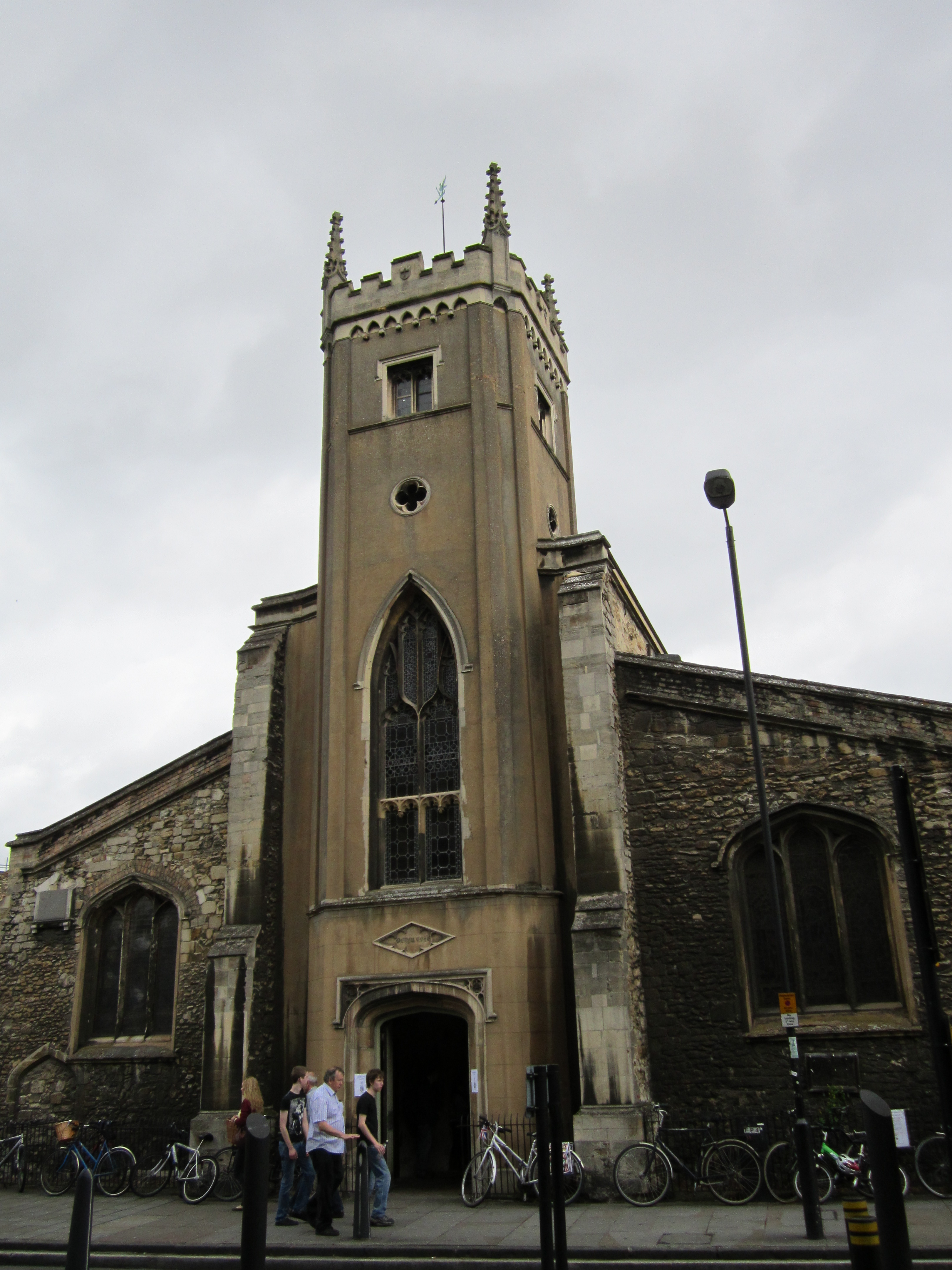 St Clement's Church, Cambridge, England.